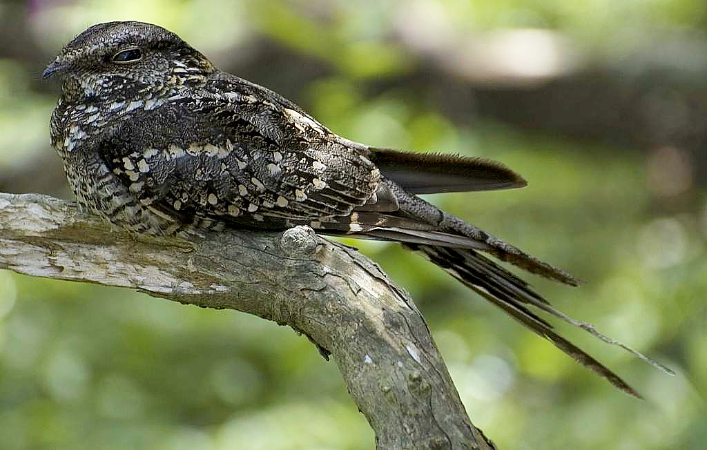 A Scissor-tailed Nightjar (Hydropsalis torquata, ) in Uruguay. NOTE: Initially mistakenly identified as Caprimulgus parvulus.